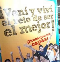 Campaña de la alcaldia de la ciudad de Santiago de Cali